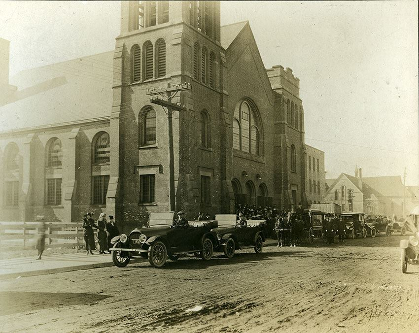 Item is a photograph of of St. Andrews Church on Bentinck Street, Sydney, featuring a horse-drawn hearse. This historic building is now the Highland Arts Theatre, first constructed as a Presbyterian Church, now operating an arts and culture centre in Sydney, Cape Breton Regional Municipality, Nova Scotia, Canada. It was initially constructed as St. Andrew's Presbyterian Church in 1910 - 1911. In 2014 St. Andrew's reopened as the Highland Arts Theatre, a live play and film theatre and concert venue located in Sydney's waterfront district.